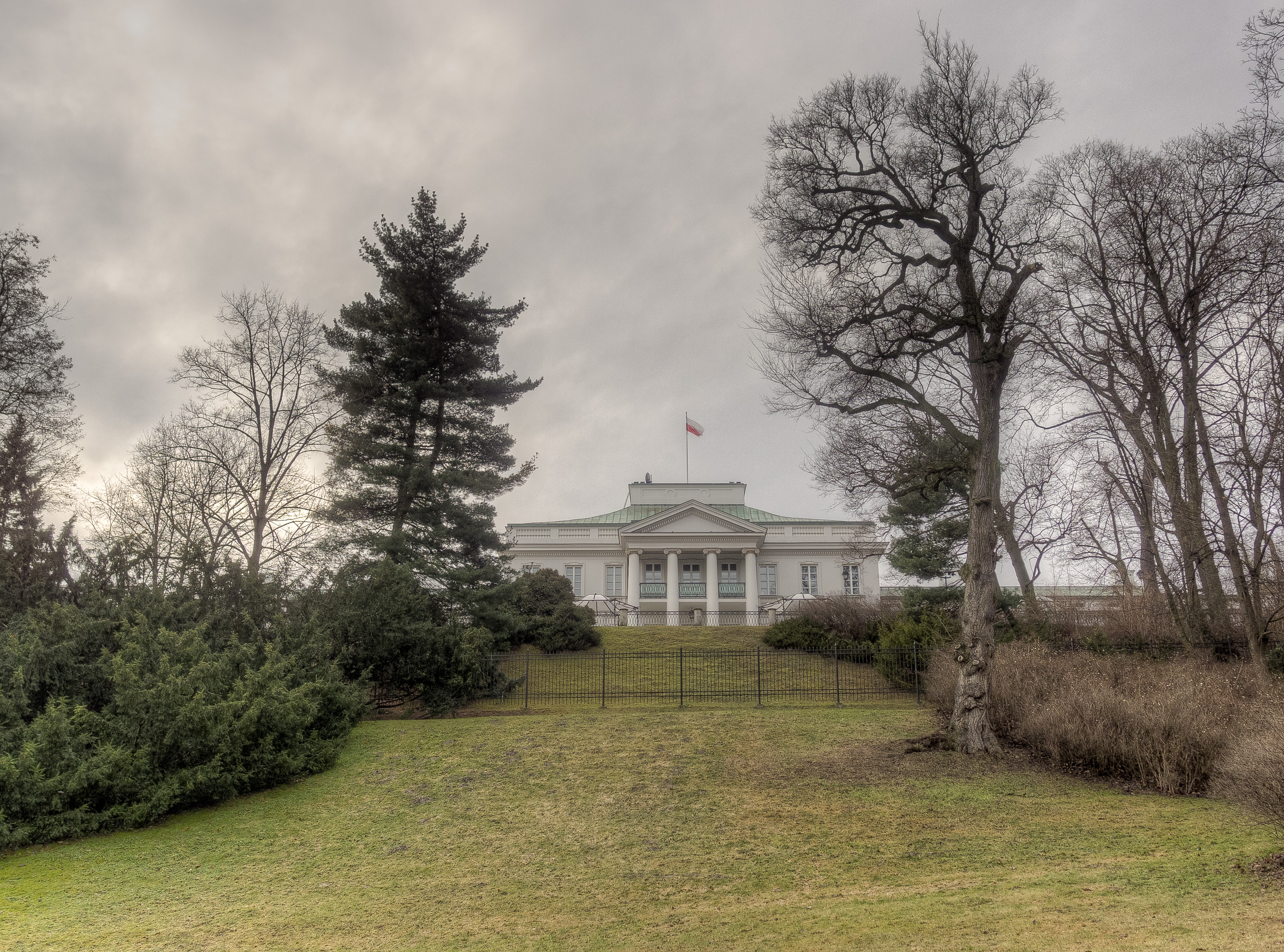 Belveder in Warsaw as seen from Lazienki Krolewskie Park